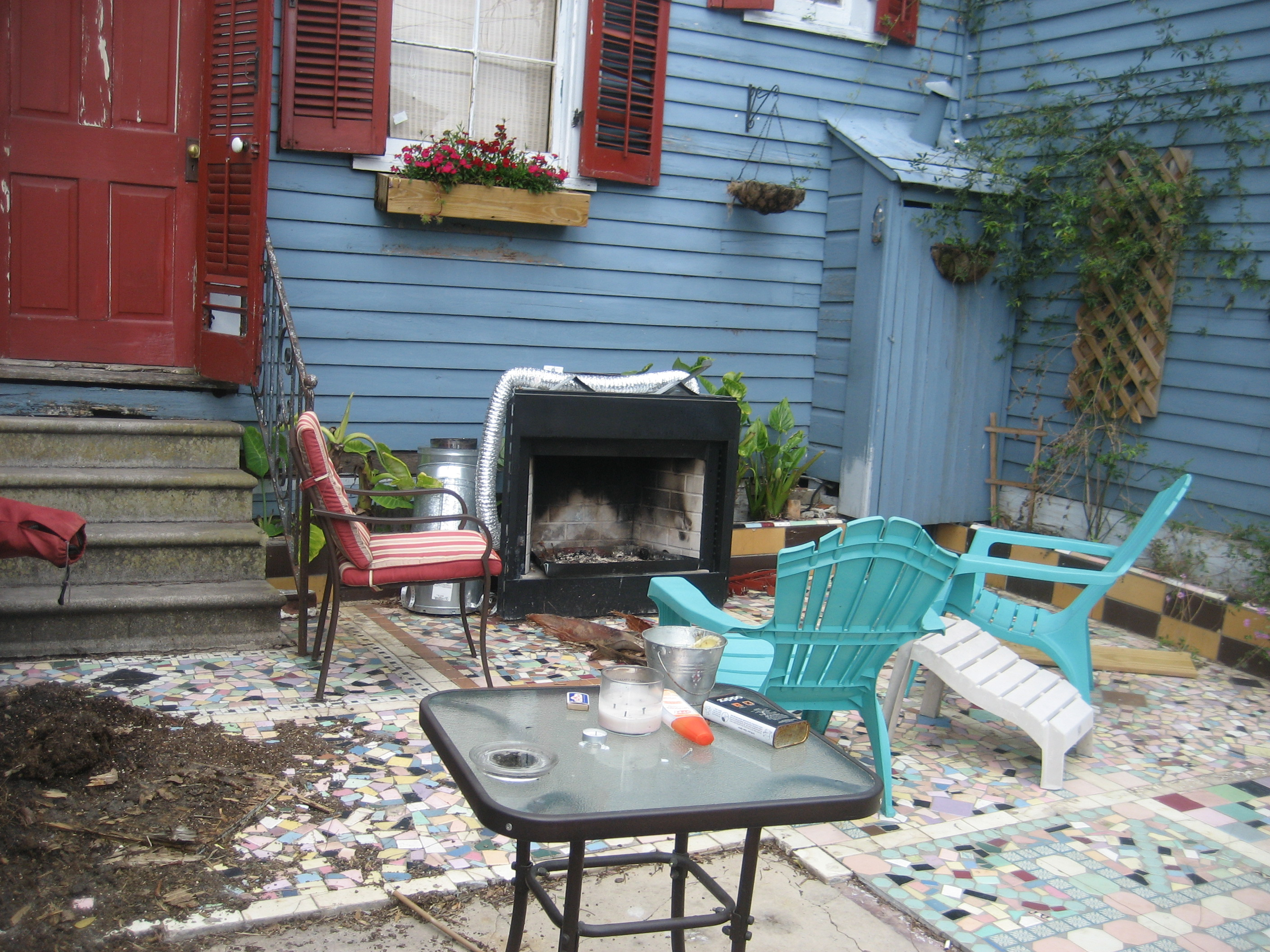 Rampart Street, Bywater neighborhood of New Orleans. Small front patio with outdoor fireplace.